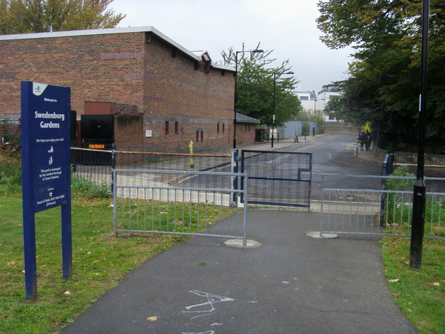 Swedenborg Gardens Swedenborg Gardens exit out on to Wellclose square